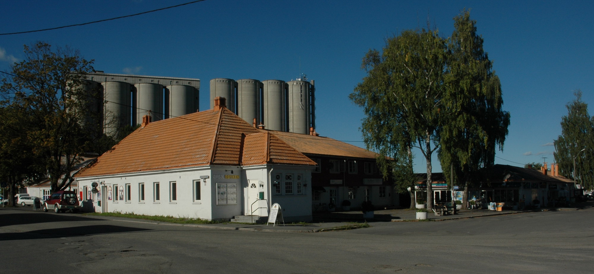 The old centre of the small community Slemmestad in Norway. The white building was the public bath of the cement factory. My own photograph, Kjetil Lenes. Taken september 2006.